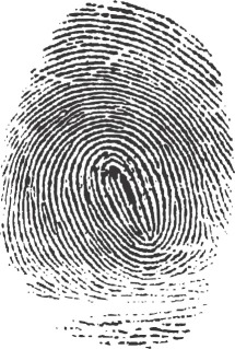 Image:Fingerprintforcriminologystubs.jpg converted in PNG with transparency